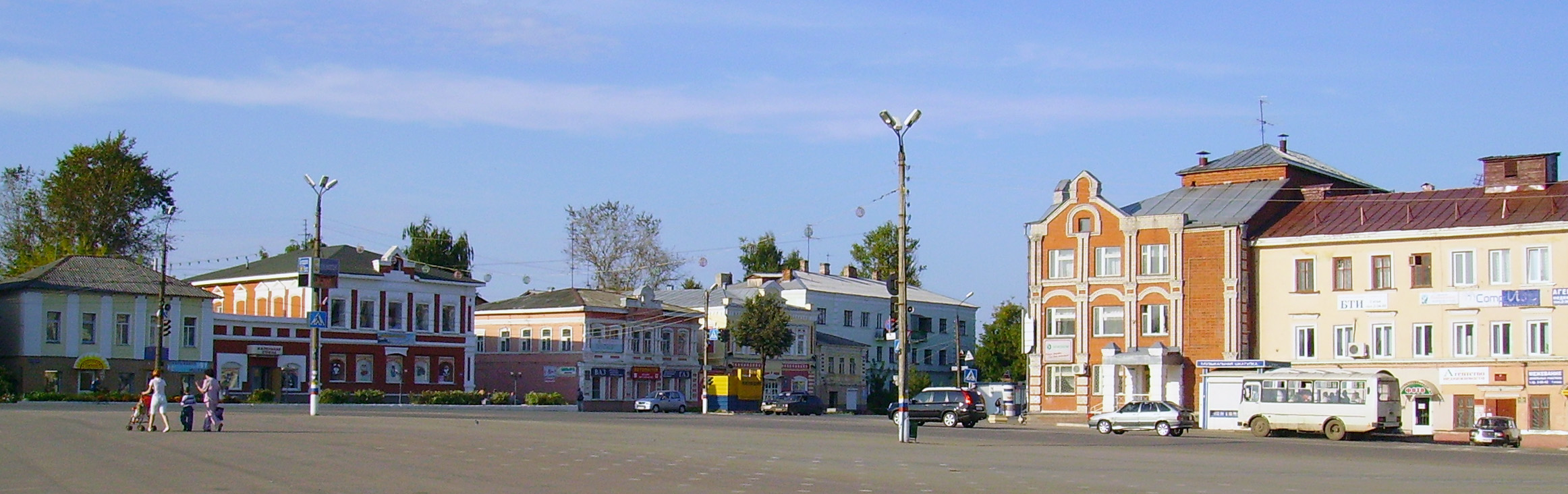 Red Square in Bogorodsk, Nizhny Novgorod Oblast, Russia